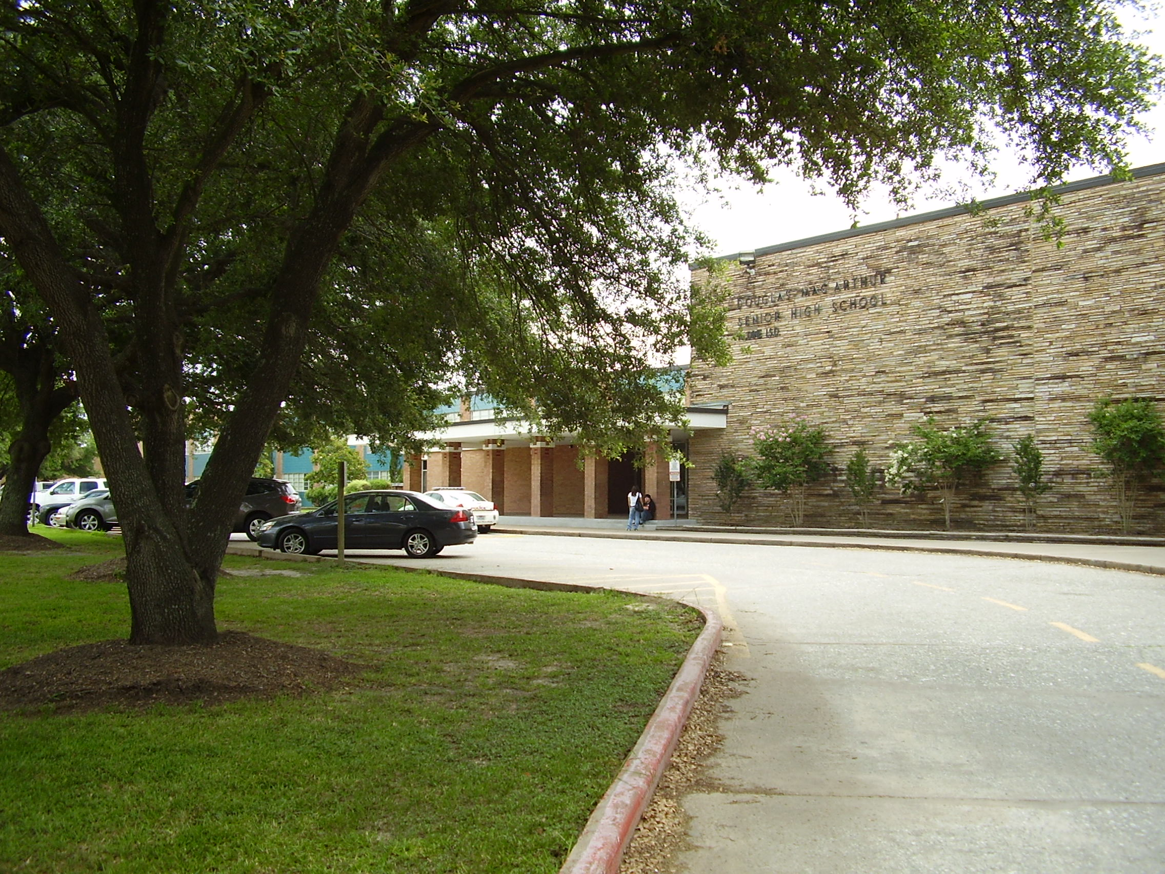 Douglas MacArthur High School in Harris County, TX